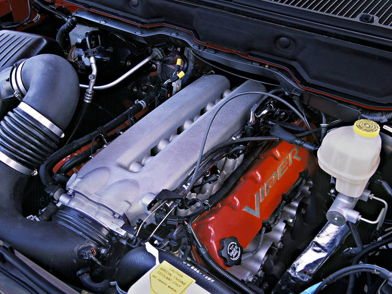 Picture of Ram SRT-10 engine I took, taken May '05. will be included in "Dodge Ram SRT-10" article